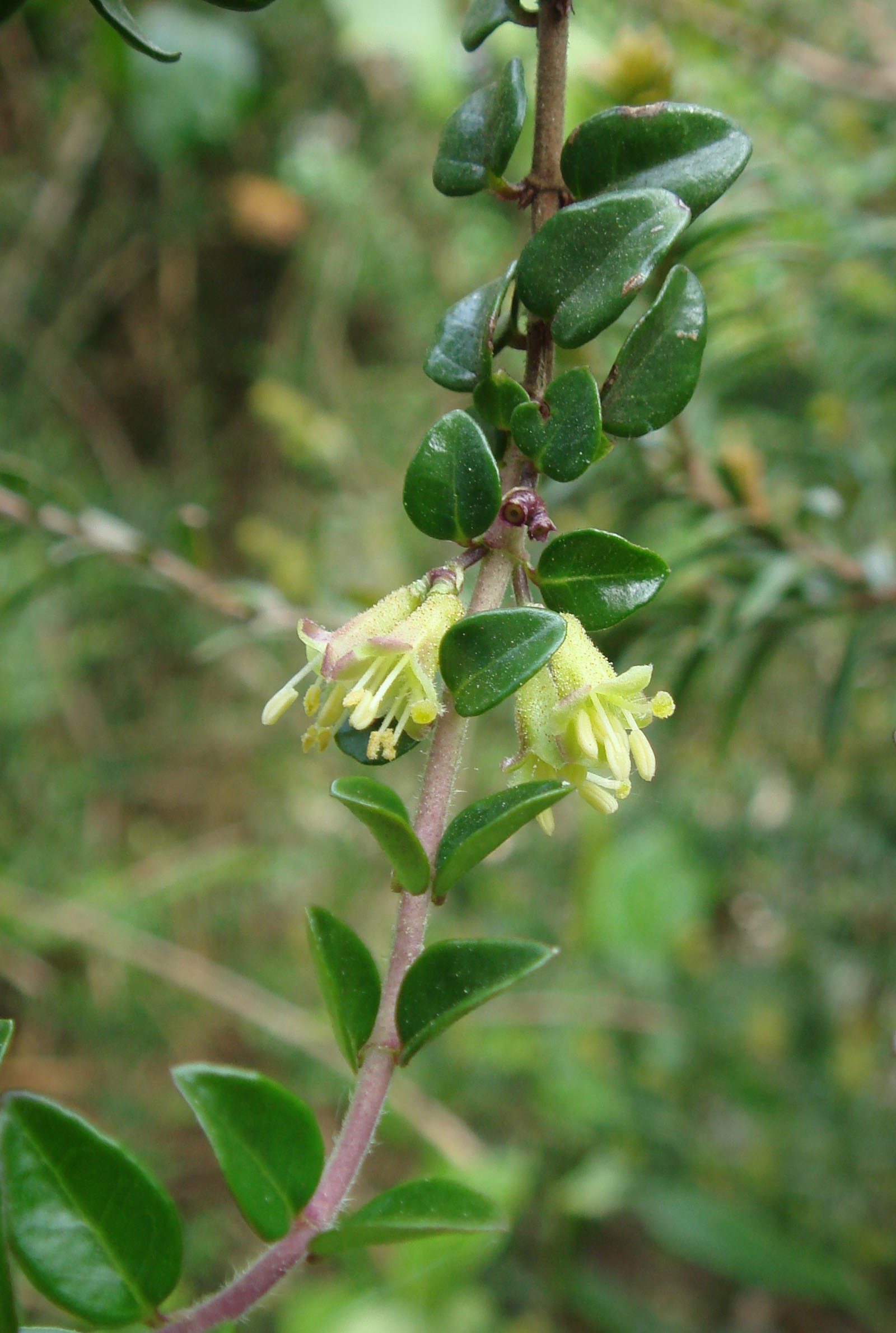 Box honeysuckle